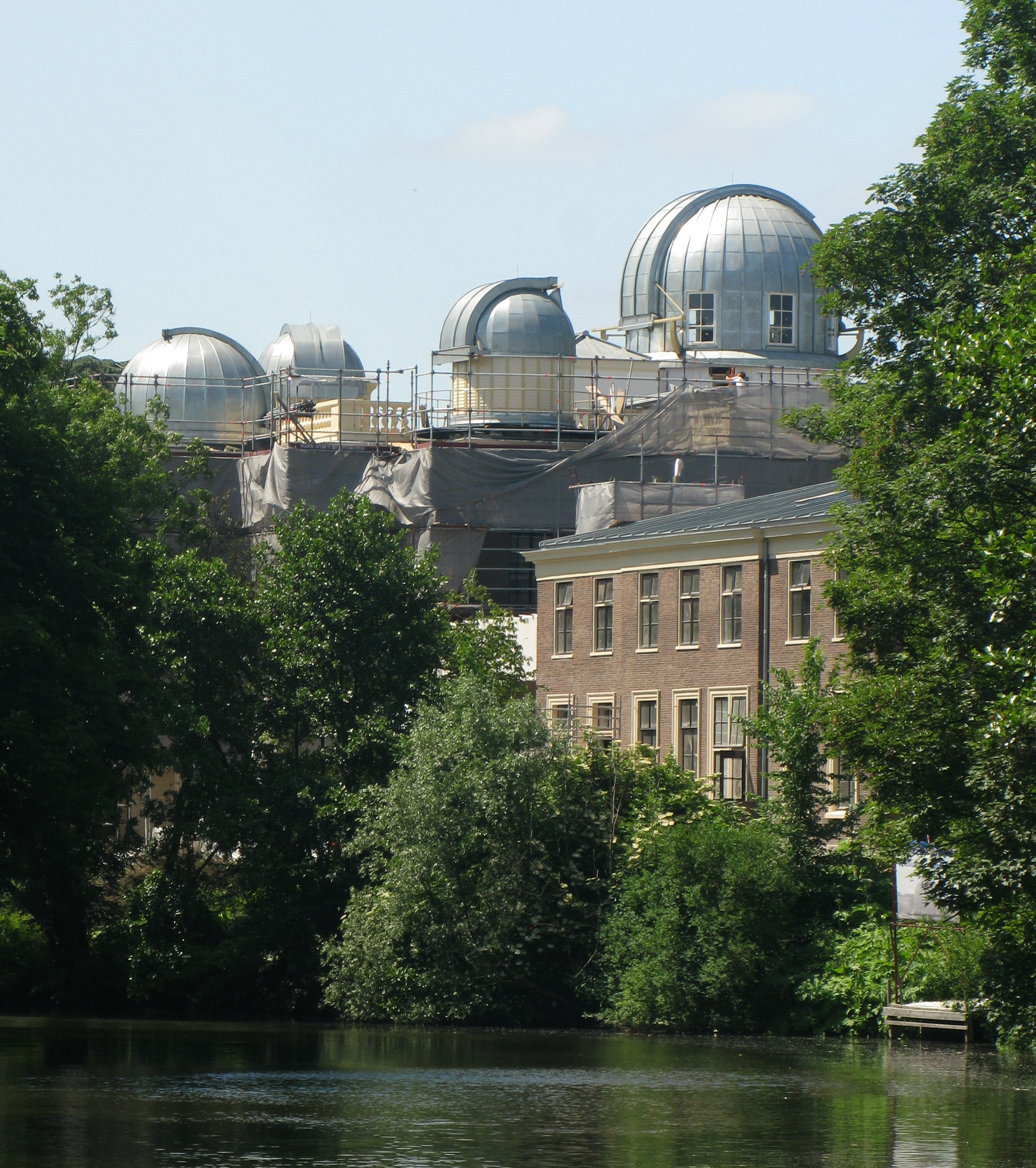 Old Observatory, Leiden, The Netherlands (during restoration)